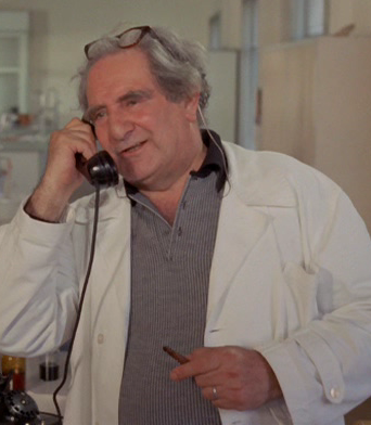 Pietro Tordi, screenshot from the film In nome del popolo italiano